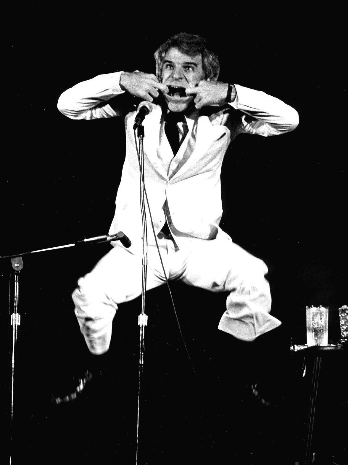 Steve Martin